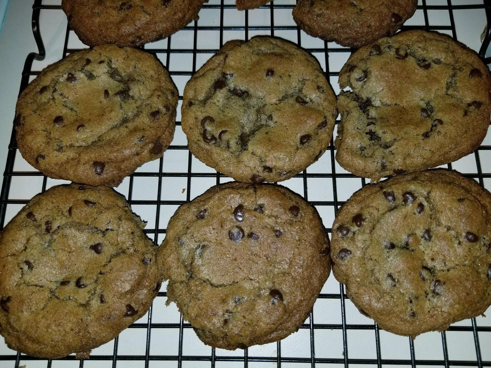 I do not smoke - but I am an advocate for the legalization of marijuana. Doing so should improve quality control and safety for those who choose to consume it. It will generate tax revenue instead of using it to prosecute and incarcerate individuals. My opinion is that it's only illegal because of the powerful pharmaceutical lobbyists. Yet another reason to support term limits. Finished/baked cookies. I prefer mine at 425 degrees for 12 minutes on a cookie sheet. It's also preferable to refrigerate the dough over night. Long story short, I did not filter butter... I had no texture issues by not using cheese cloth (I have SED/ARFID) . I did use a grinder before I decarbonized the marijuana for an hour at 200 degrees, so the it was in the tiniest bits possible bits possible and very potent. 1/4 of a cookie would get you where you needed to be without being silly.